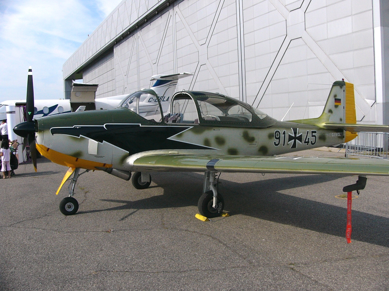 Focke-Wulf FWP. 149D C-FWOL